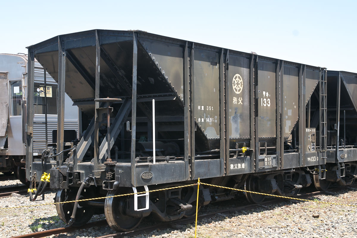 Ore car of Chichibu Railway, type Woki 100 (133).